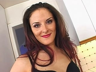 Caroline Pierce at a photoshoot.